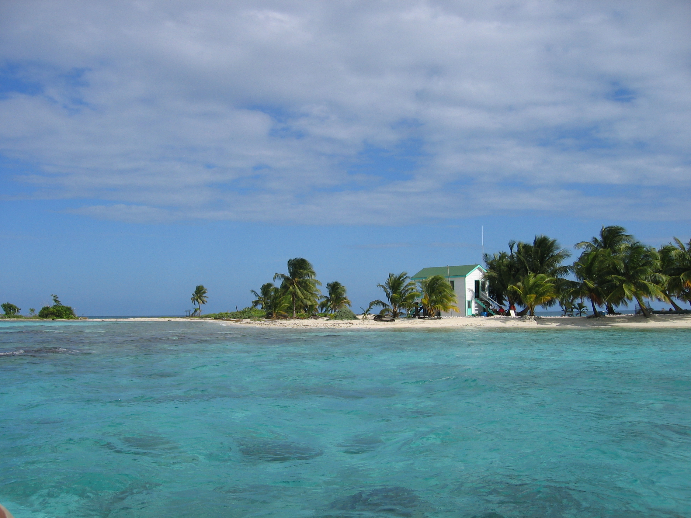 Laughing Bird Caye — in the Sapodilla Cayes Marine Reserve, Belize.